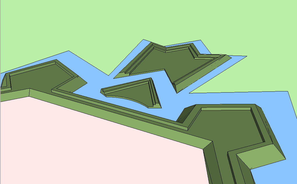 "Papenmuts" part of fortifications